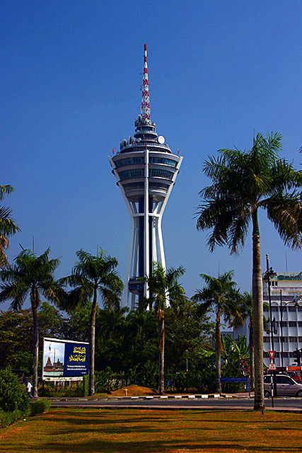 Alor Setar Tower. Menara Alor Setar is the tallest tower in Kedah.